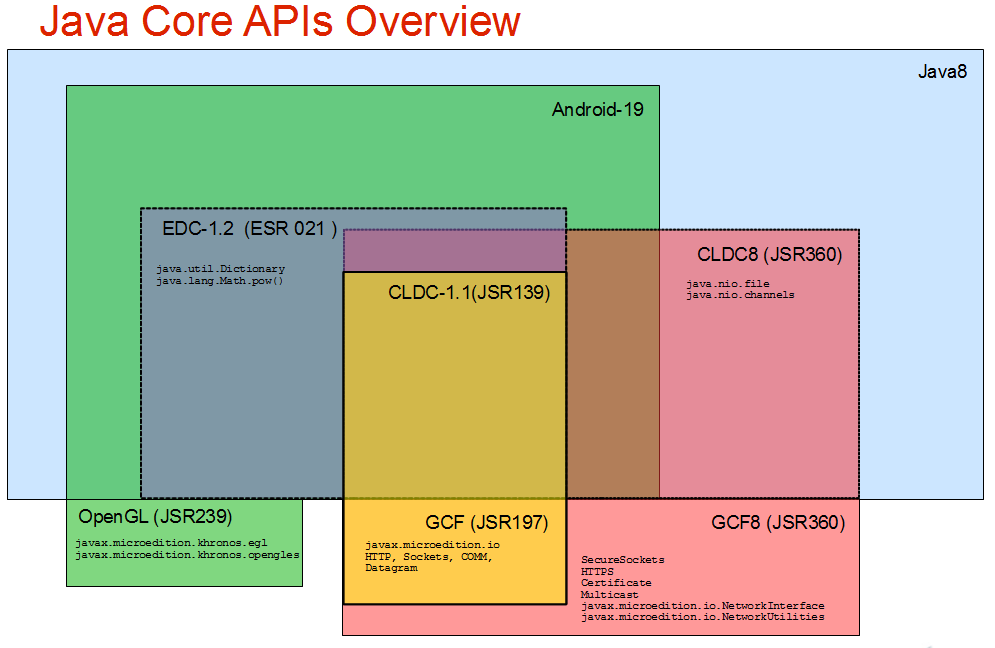 The description of the Java Core API